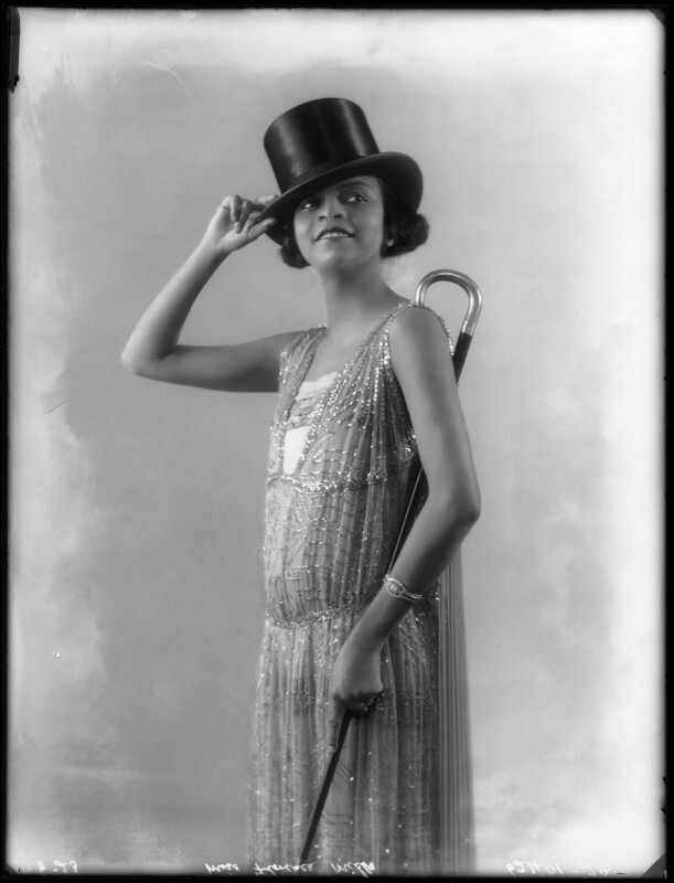 Florence Mills in 'Dover Street to Dixie' at the London Pavilion by Bassano Ltd whole-plate glass negative, 1 August 1923 Given by Bassano & Vandyk Studios, 1974 Photographs Collection NPG x74707